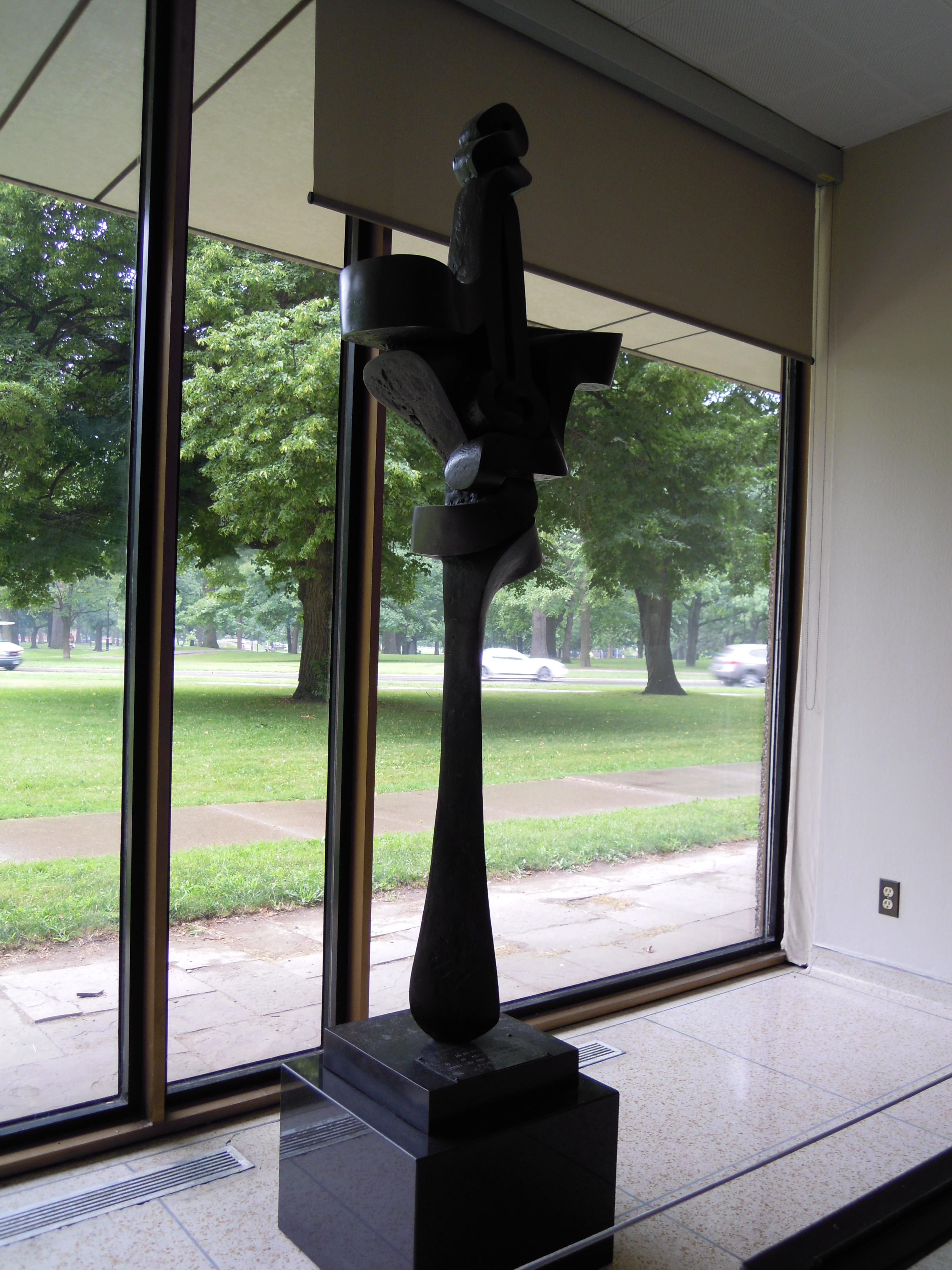 "Ceremonial Figure" (1964) by Sorel Etrog, located inside Northrop Frye Hall at Victoria College, University of Toronto, Toronto, Ontario, Canada.